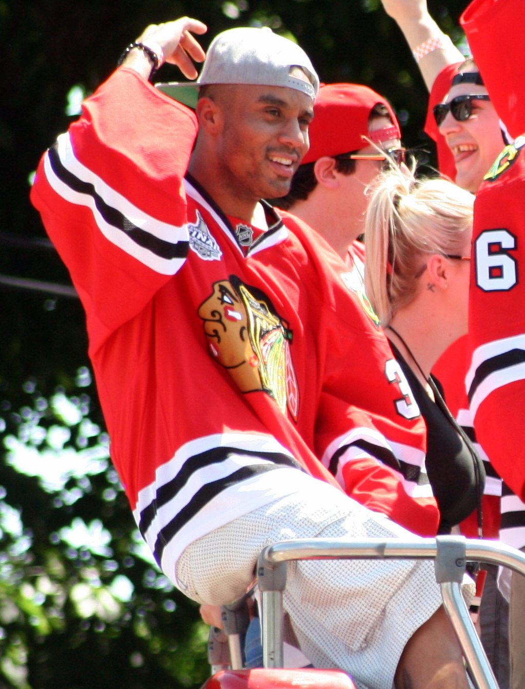 Blackhawks Victory Parade Chicago June 28th